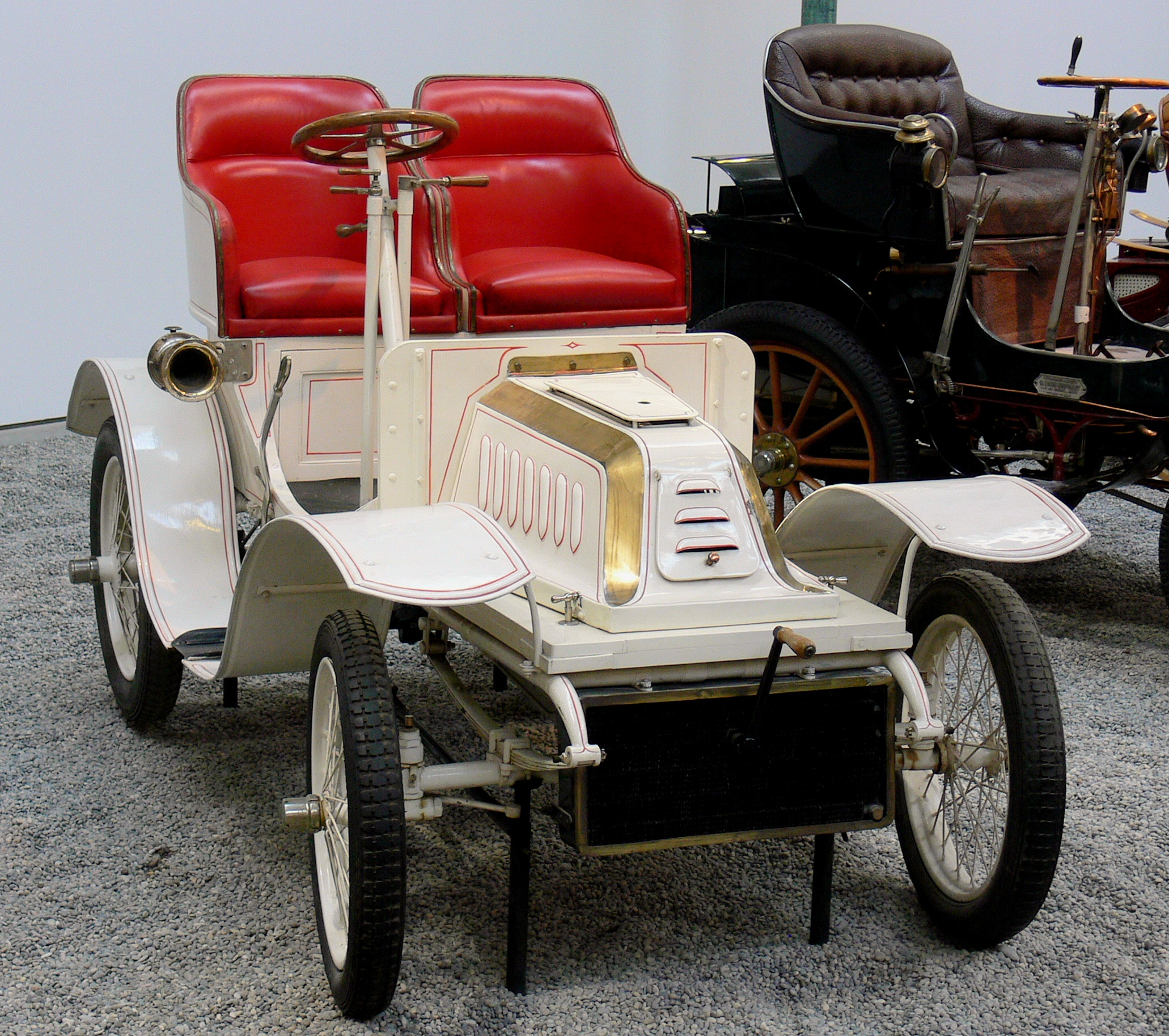 De Dion-Bouton Populaire Type J (1902) in the Musée National de l'Automobile (Muhlhouse)